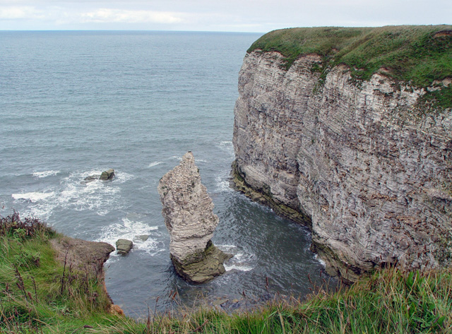 King Rock and Queen Rock, South Breil, Flamborough Head, Flamborough, East Riding of Yorkshire, England.King Rock just shows above the sea, Queen Rock still stands as a stack. South Breil is the Bay, and the headland (photograph top right) is named Breil Nook.